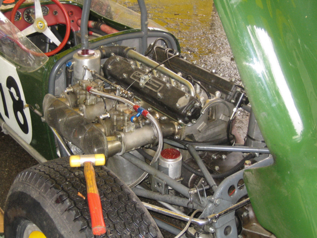 Coventry Climax FPF 2500cc F1 engine in a Lotus 18